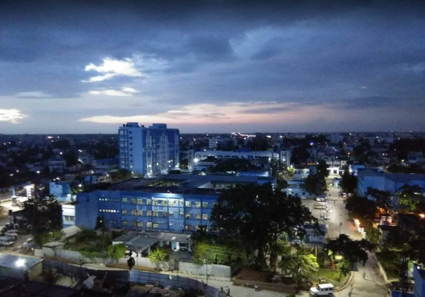 Malda Town Skyscrapers